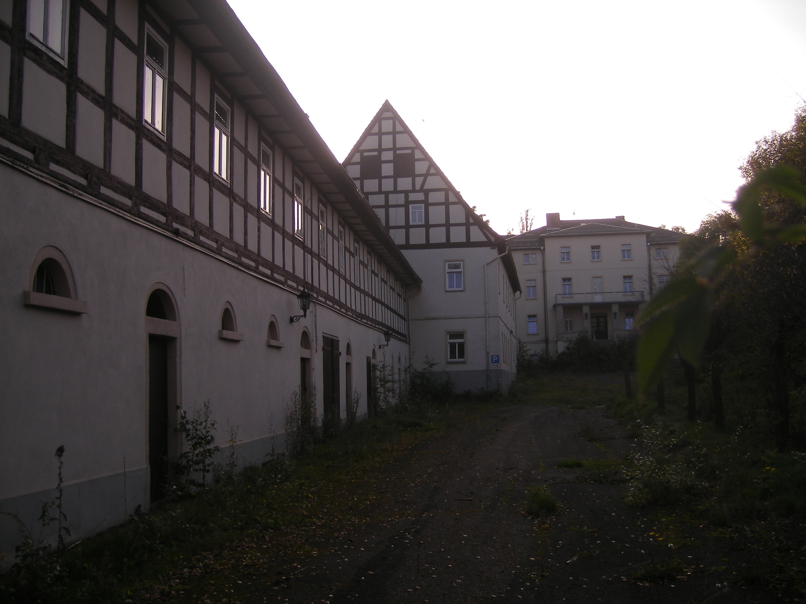 Castle in Weißbach near Schmölln in Thuringia